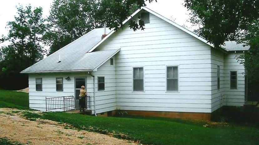 Zalma Missionary Baptist Church, the first Baptist church in Zalma, Missouri